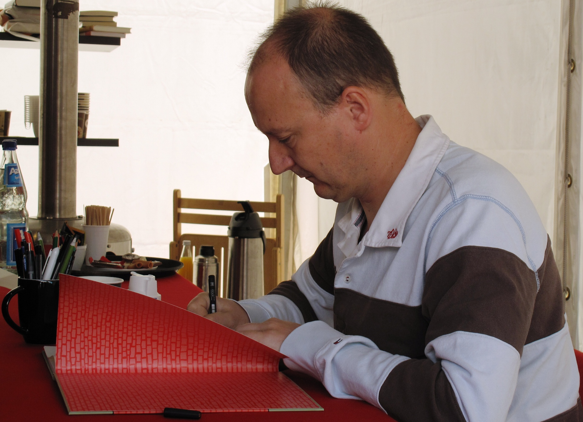 Frankfurt Book Fair 2011